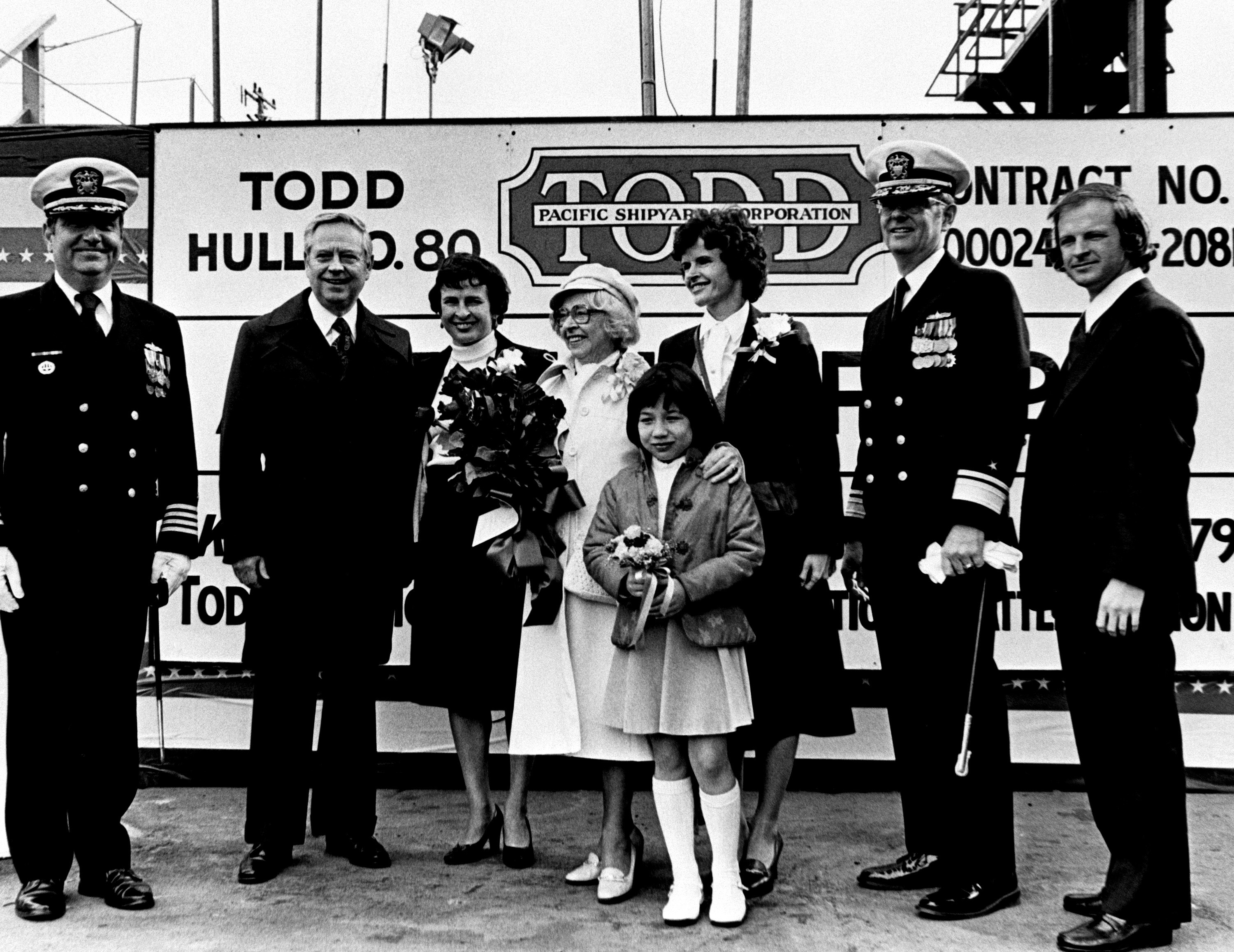 The launching party for the guided missile frigate ANTRIM (FFG-20) are from left to right: CAPT S. P. Passantino, Mrs. Carl R. Meurk, Mrs. Leonard Laylon, Mrs, Richard N. Antrim, Miss No Robertson, Mrs. William Walker, RADM Floyd H. Miller and Mr. Lance Antrim during the ship's launching ceremony at Todd Pacific Shipyards Corporation in Seattle, Washington.